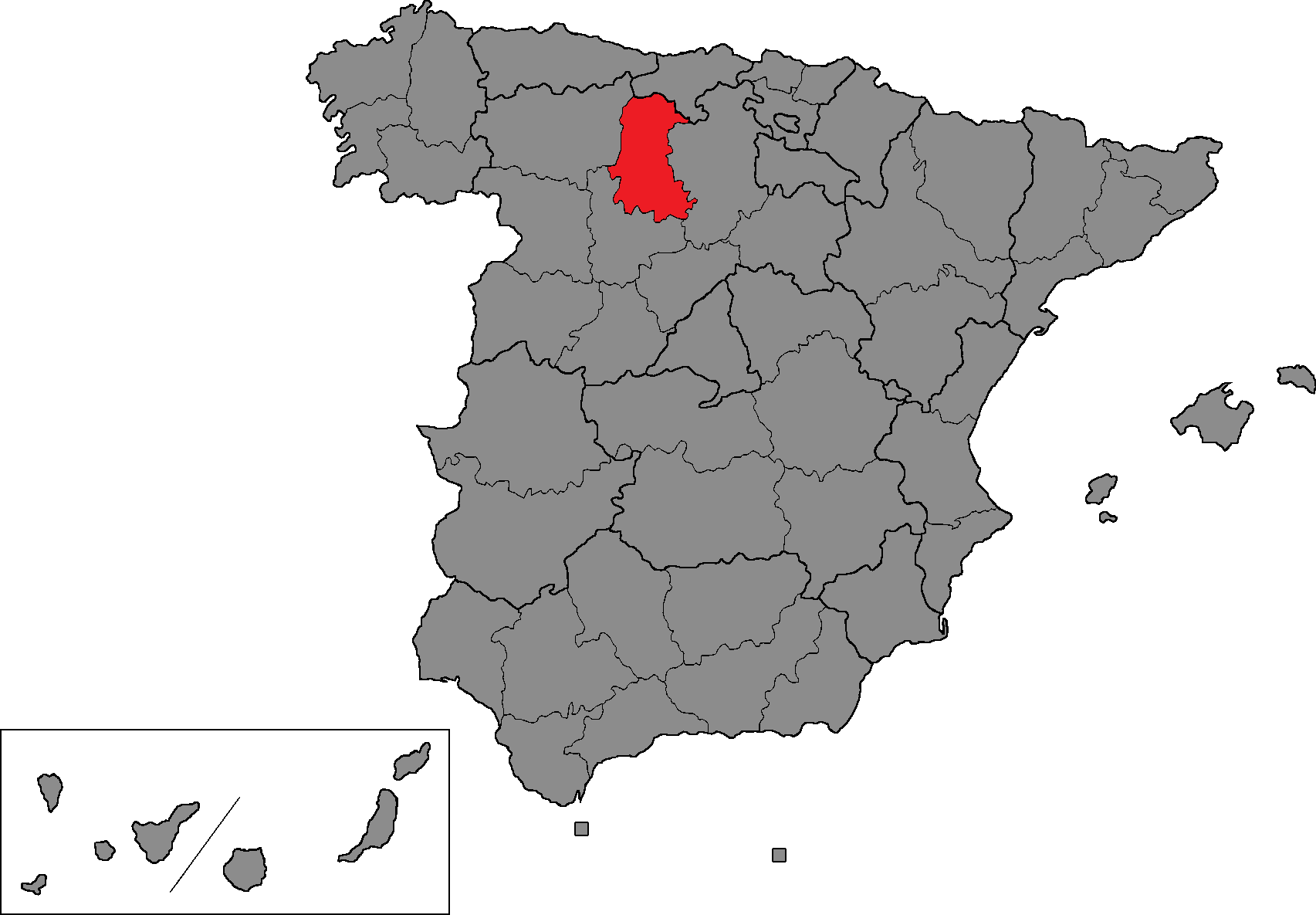 Spanish Congress of Deputies district of Palencia.